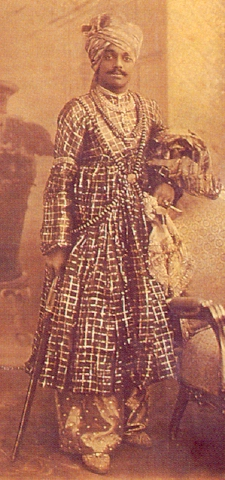 Mohammad Jamiat Kanji II, (1894-1945), Nawab of Balasinor princely state